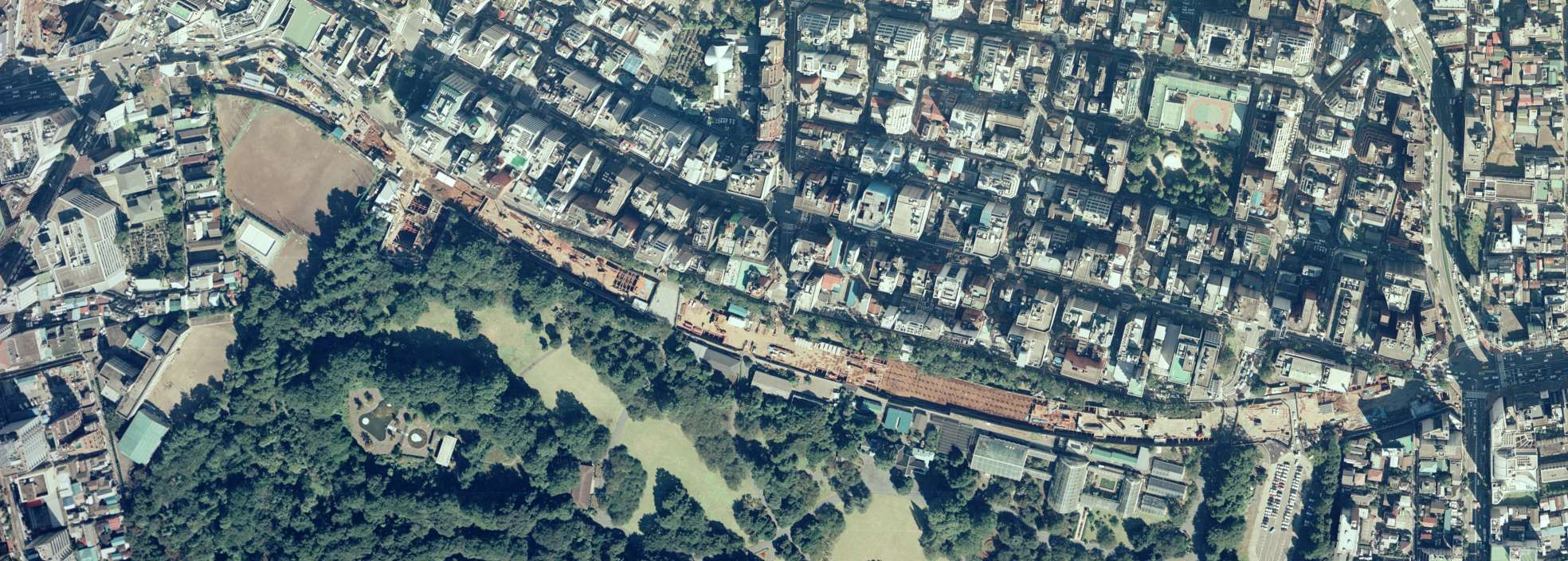 Shinjuku Gyoen Tunnel construction site